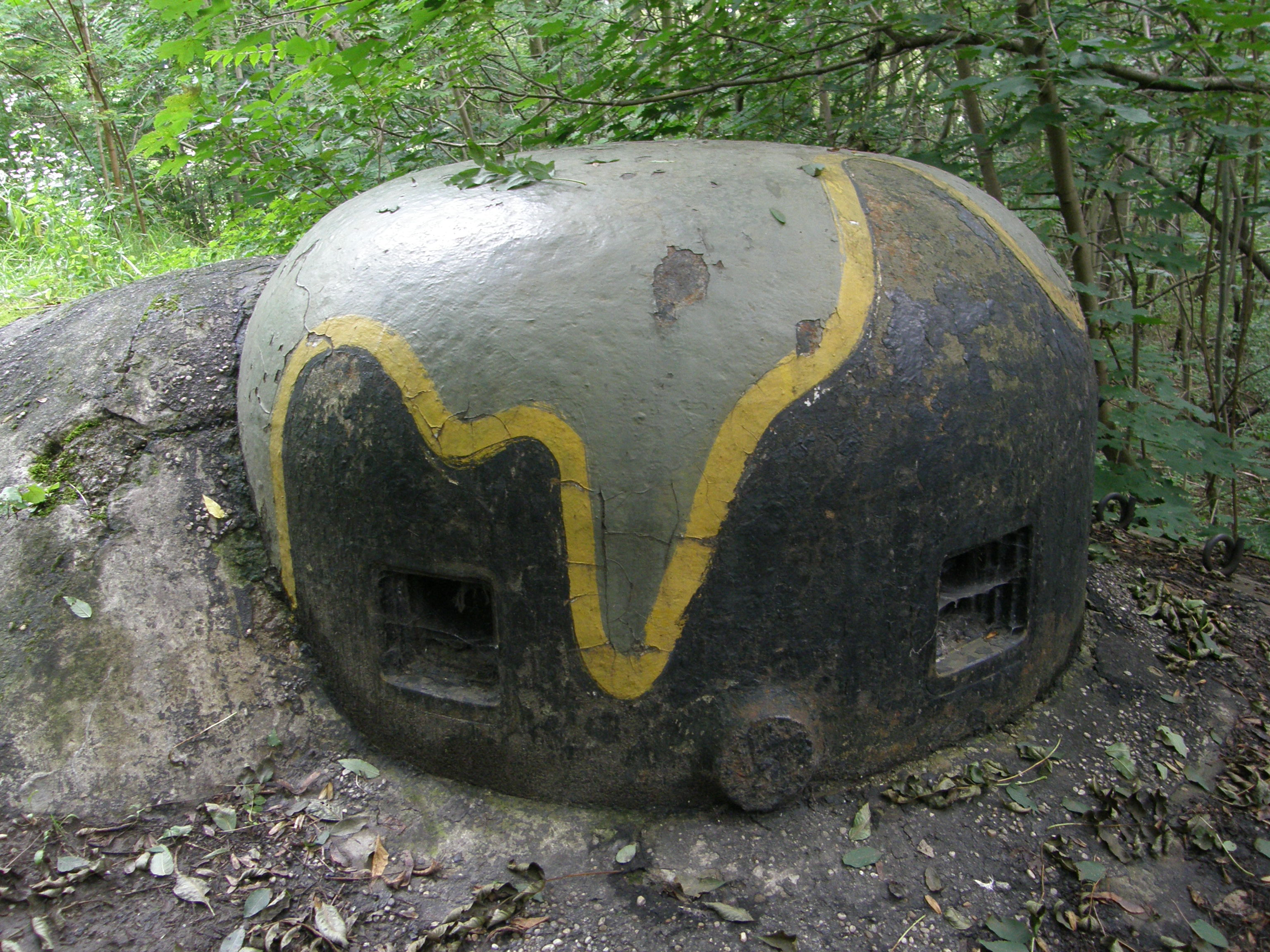 Levý pěchotní zvon pro lehký kulomet vz. 26 (AJ/N) pěchotního srubu B-S 1 Štěrkoviště